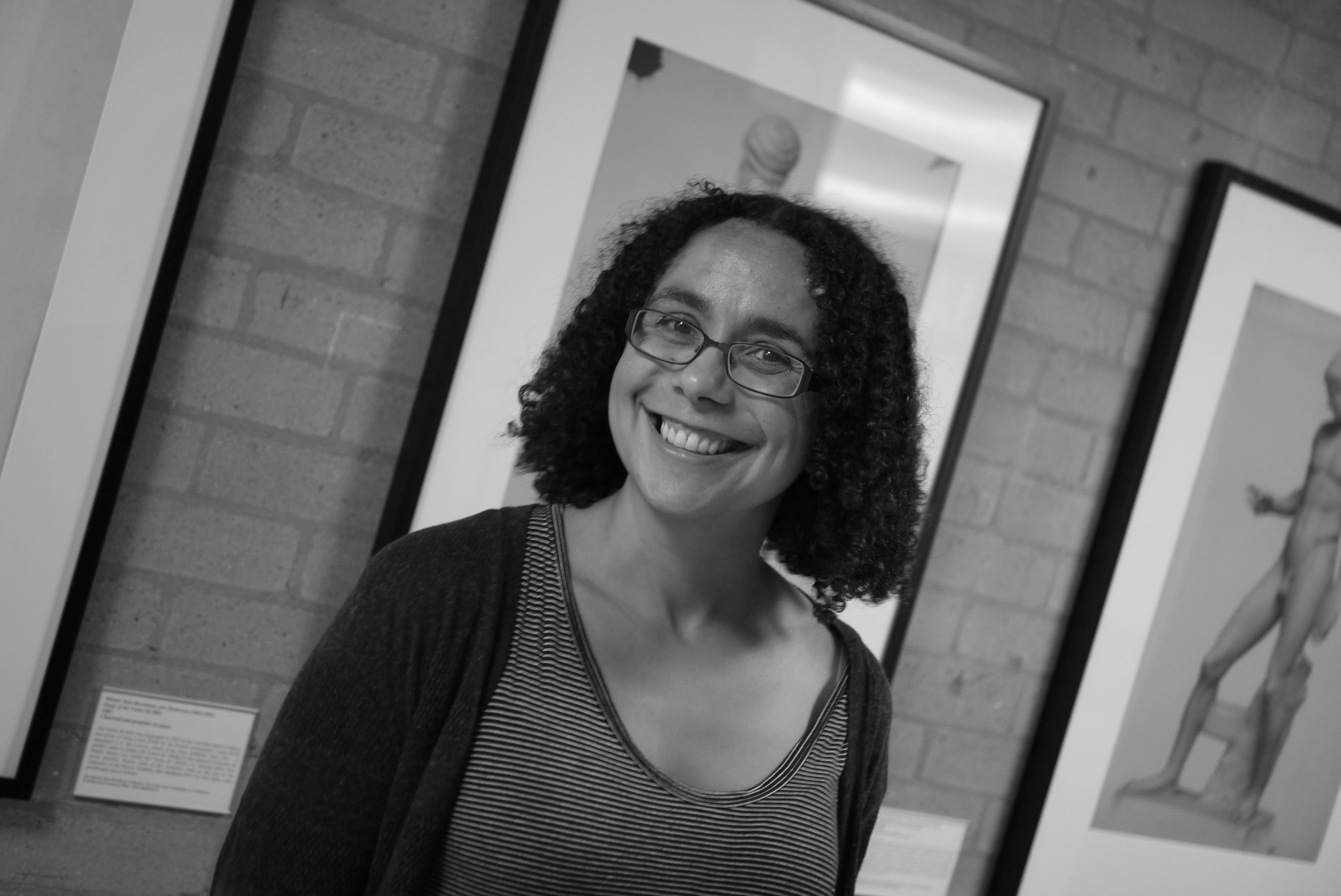 Black and white portrait of Katherine Harloe, taken in the Department of Classics, University of Reading.